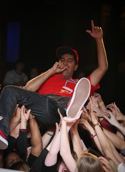 Mo Sabri stage dive